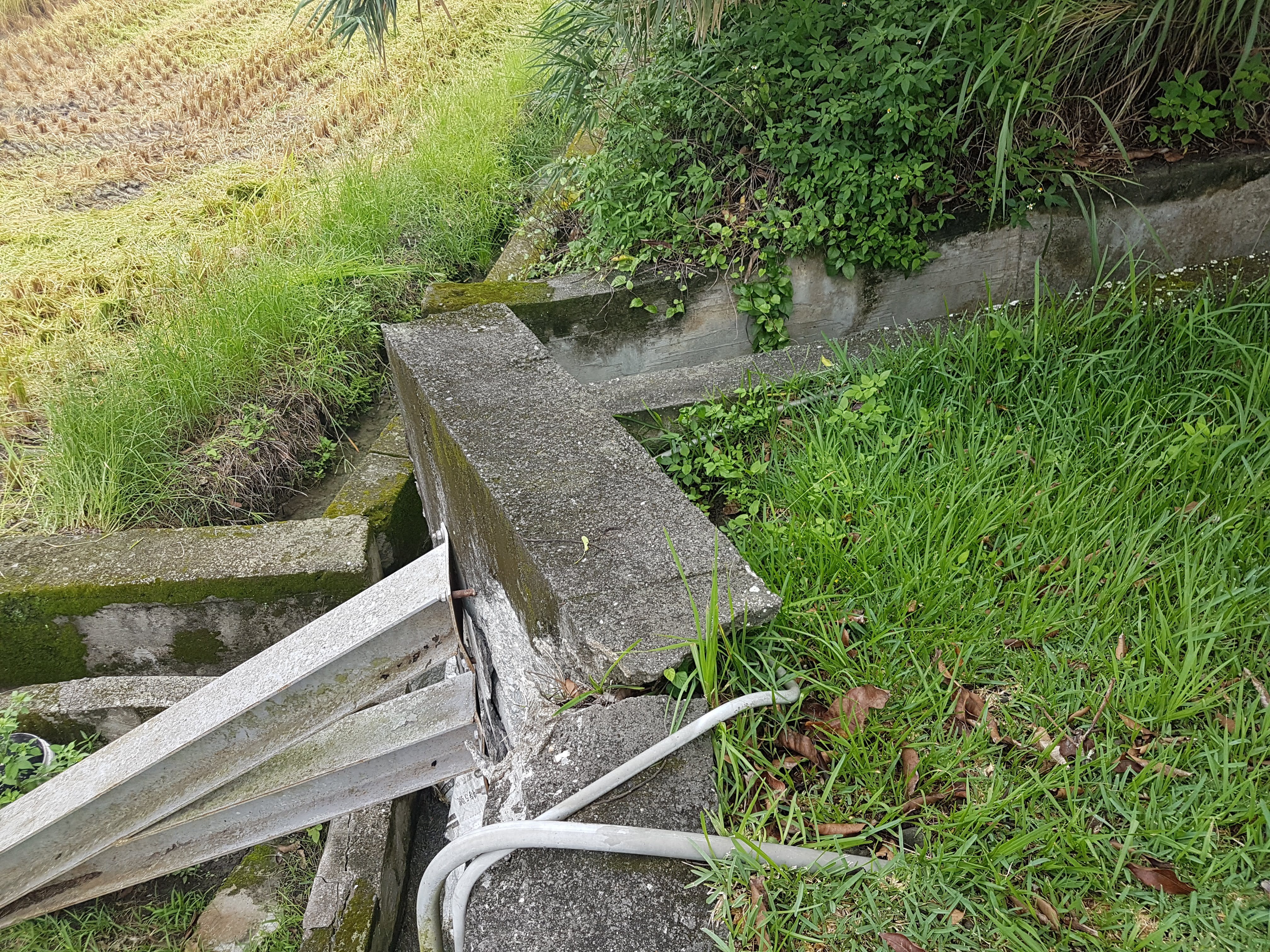 Creaks on concrete in Chishang due to fauting